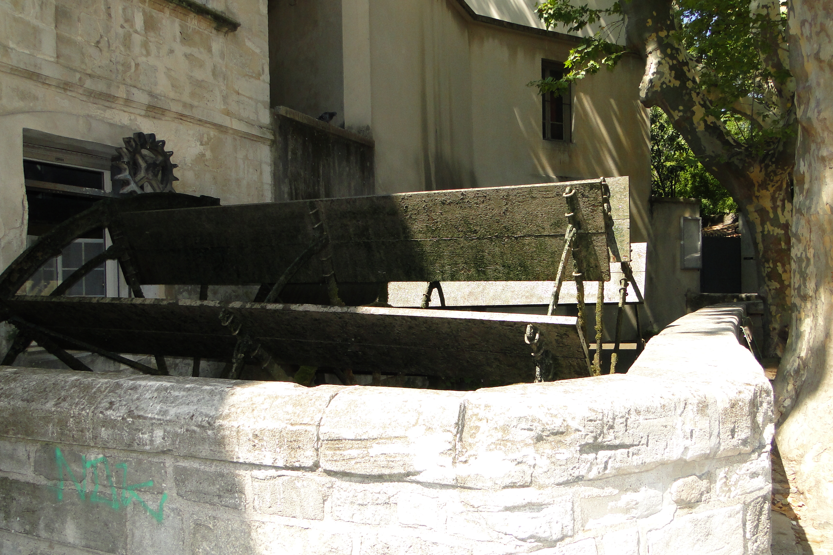 Street of the Tanners (Rue des Teintures)